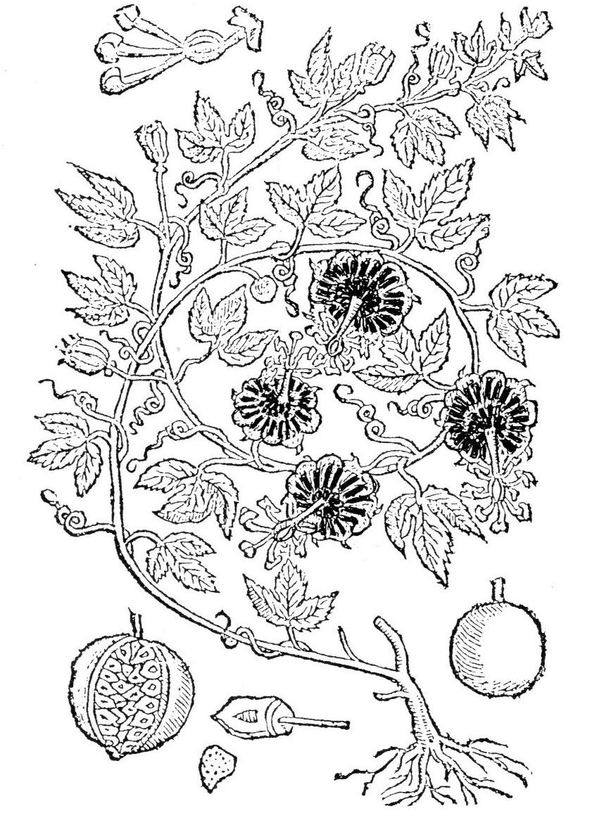 Xylography of Passiflora incarnata